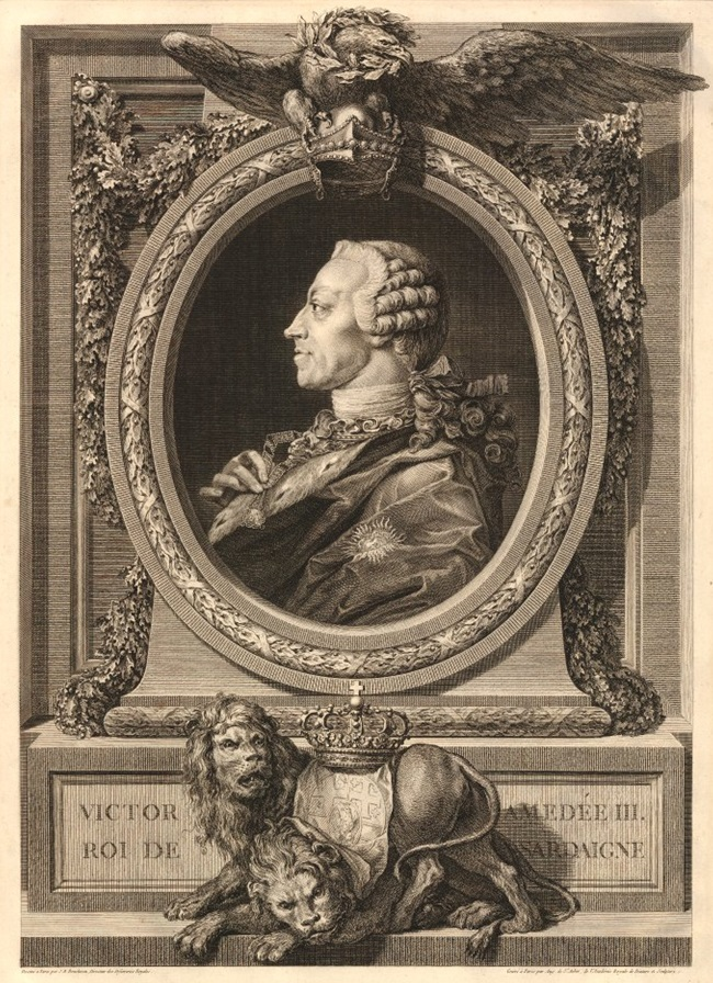 Portrait of Victor Amadeus III